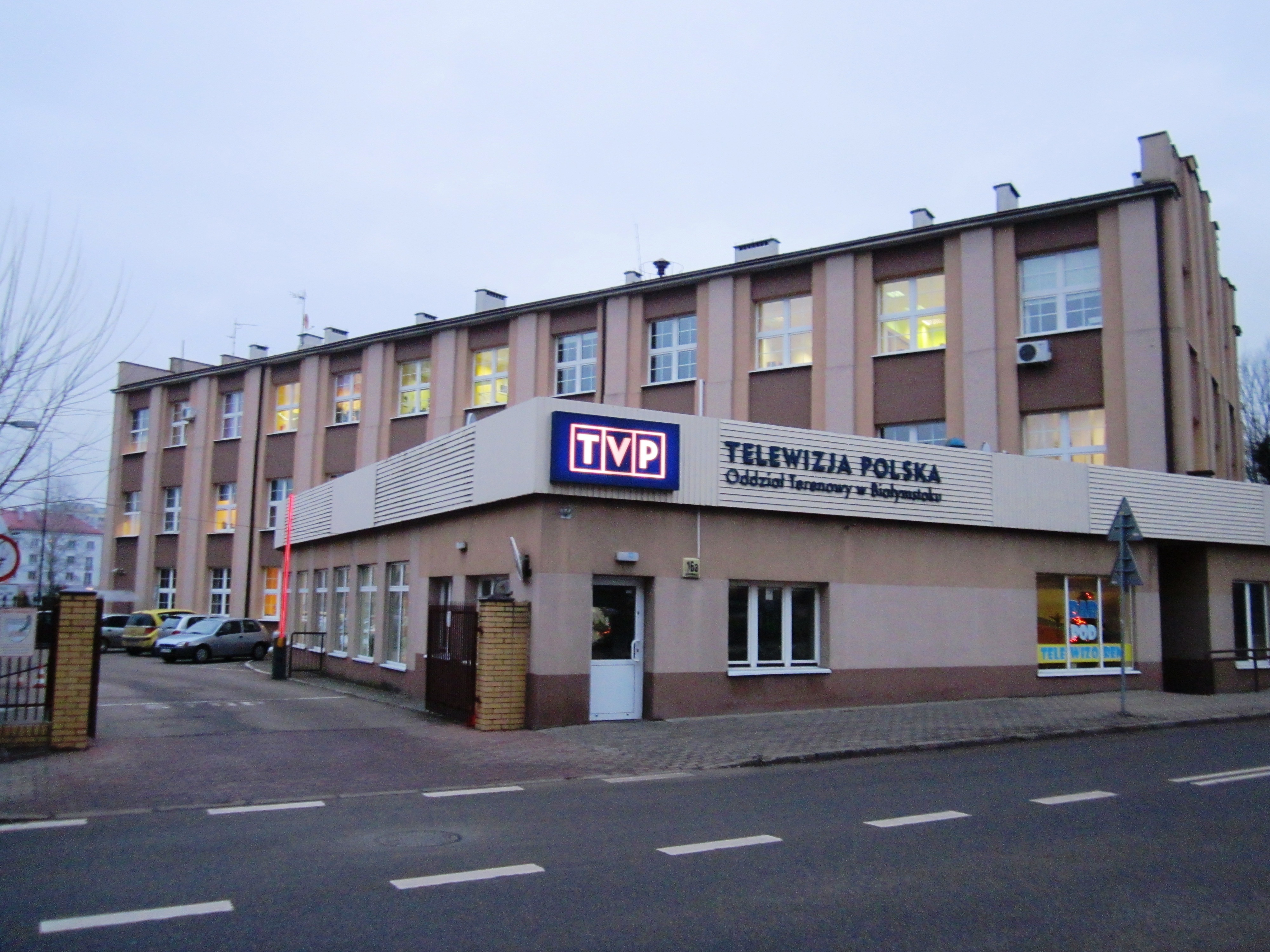 TVP Białystok is one of the regional branches of the TVP